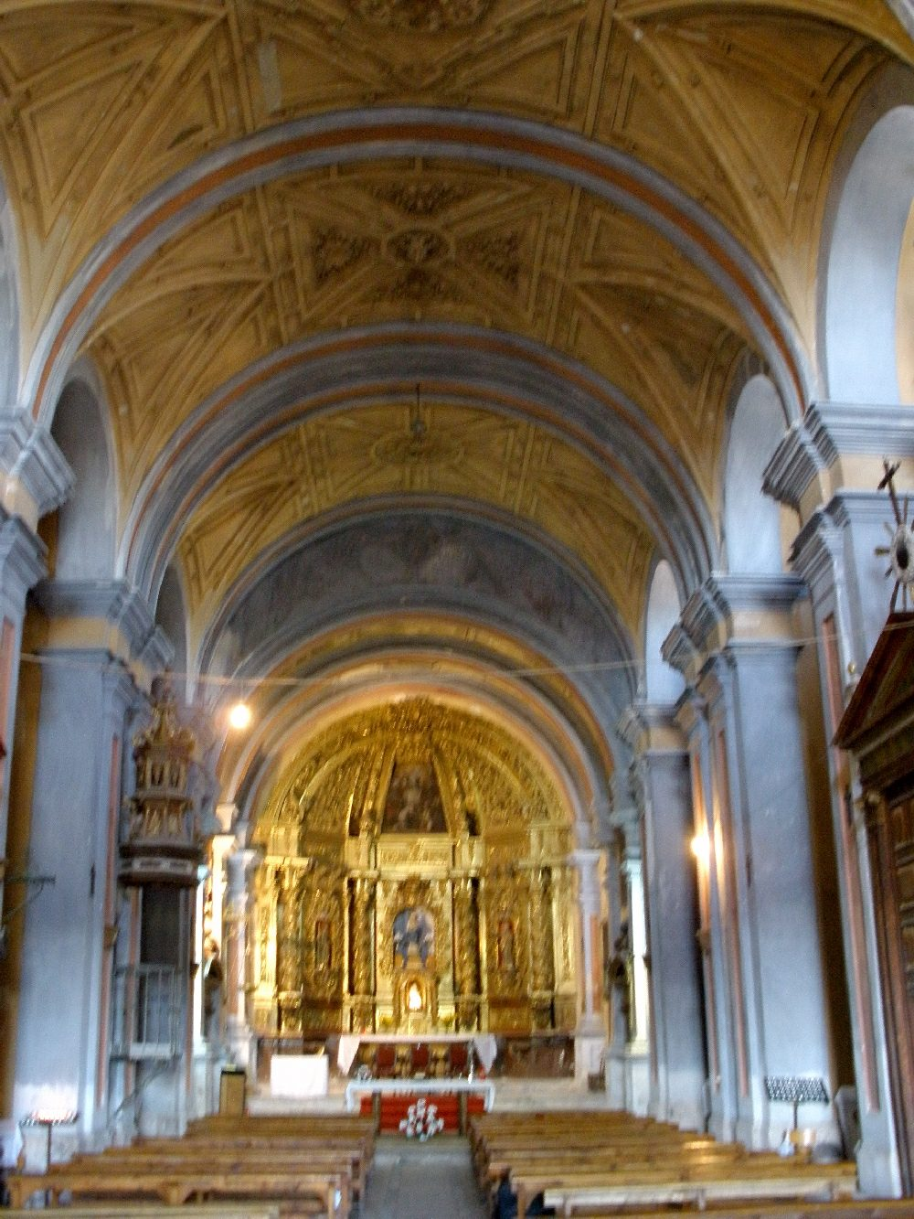 Iglesia de Santa María de la Cuesta, Cuéllar (provincia de Segovia, Castilla y León, España).